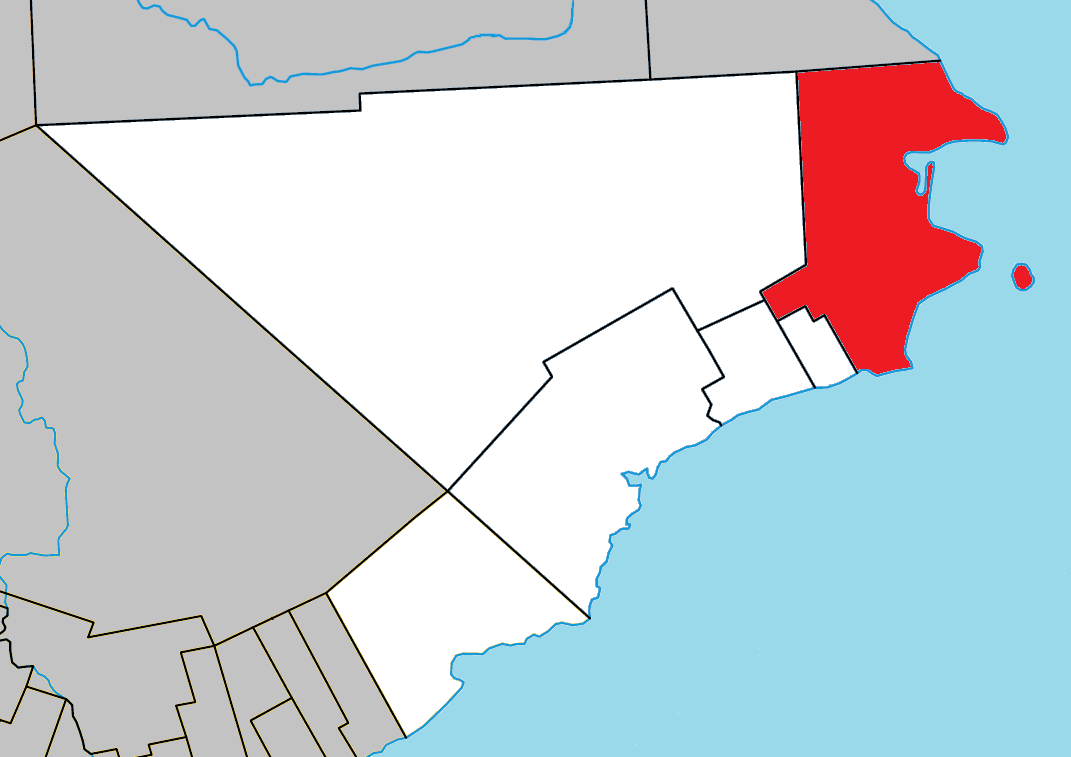 Location of Percé, Quebec within Le Rocher-Percé Regional County Municipality.